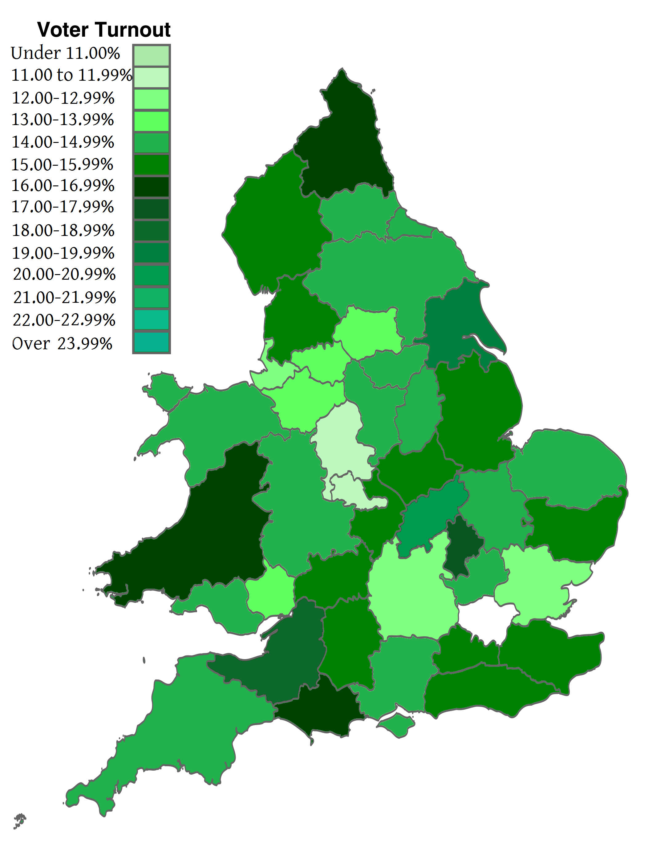 The 2012 voter turnout.